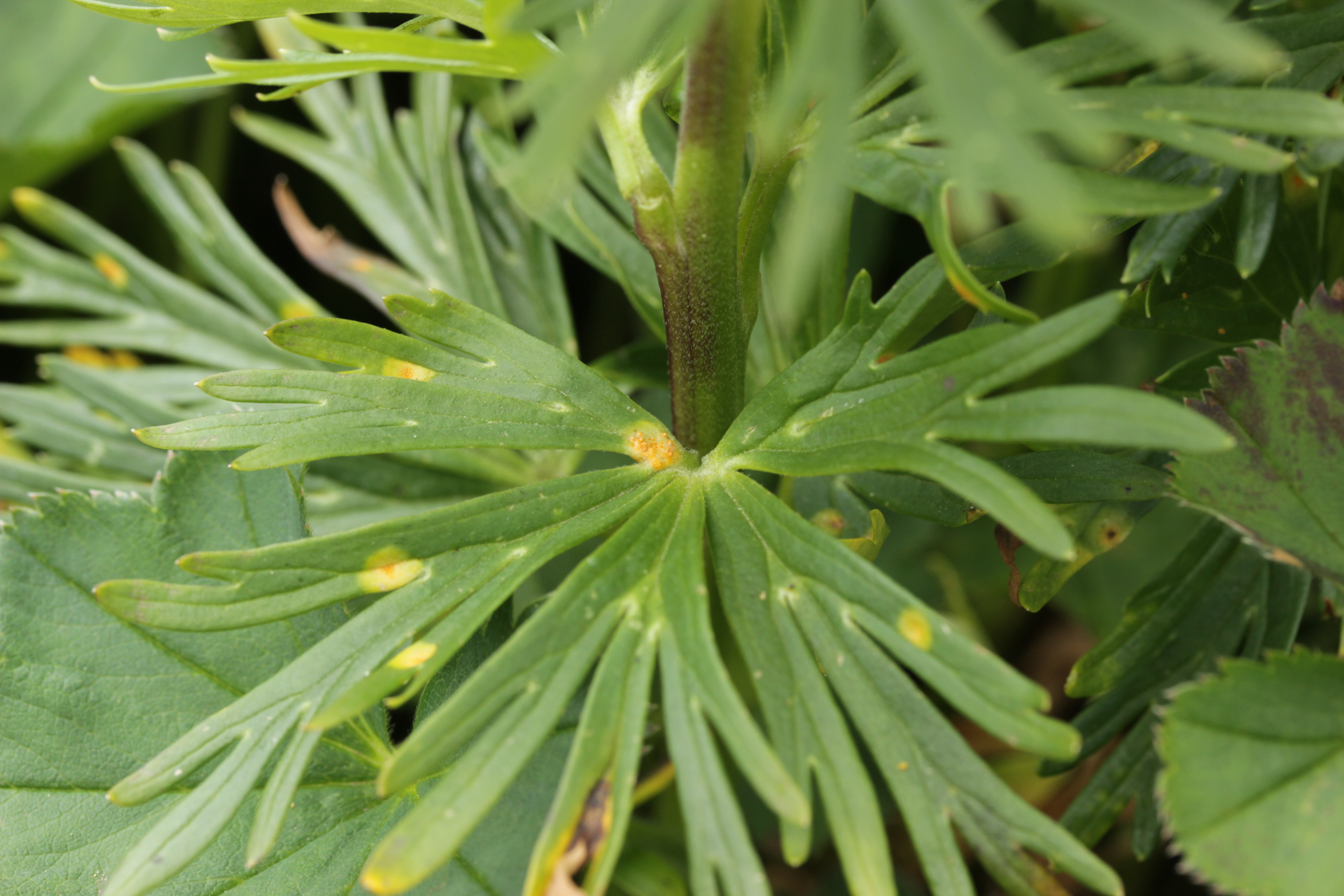 Puccinia actaeae-agropyri on Monk's-hood - Aconitum napellus